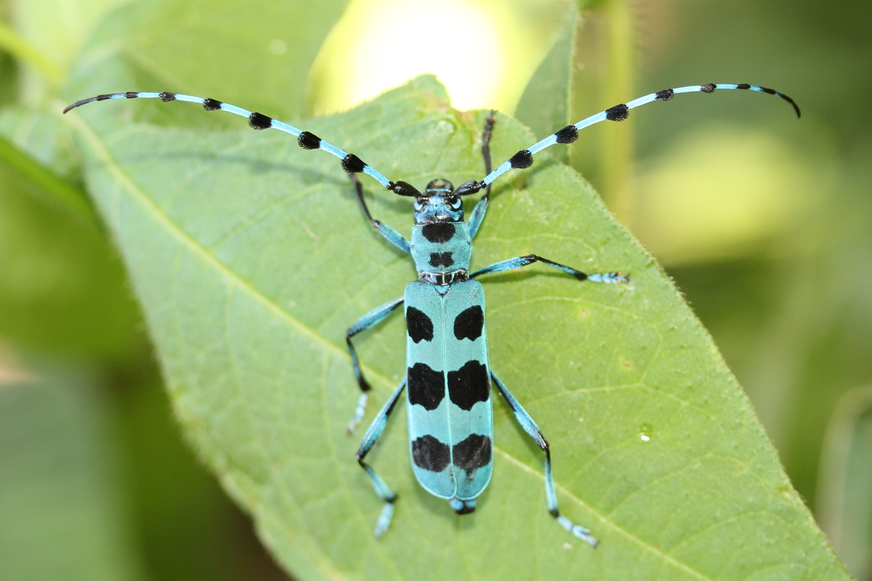 Rosalia batesi on leaf in Fukui pref., Japan.